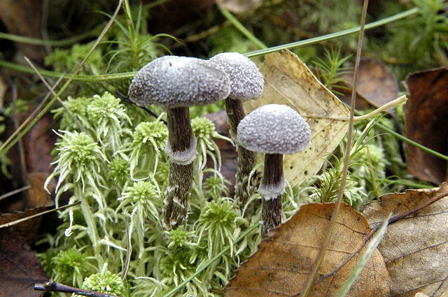 Cortinarius hemitrichus from Commanster, Belgium. If you think this is a different taxon, please contact James Lindsey.